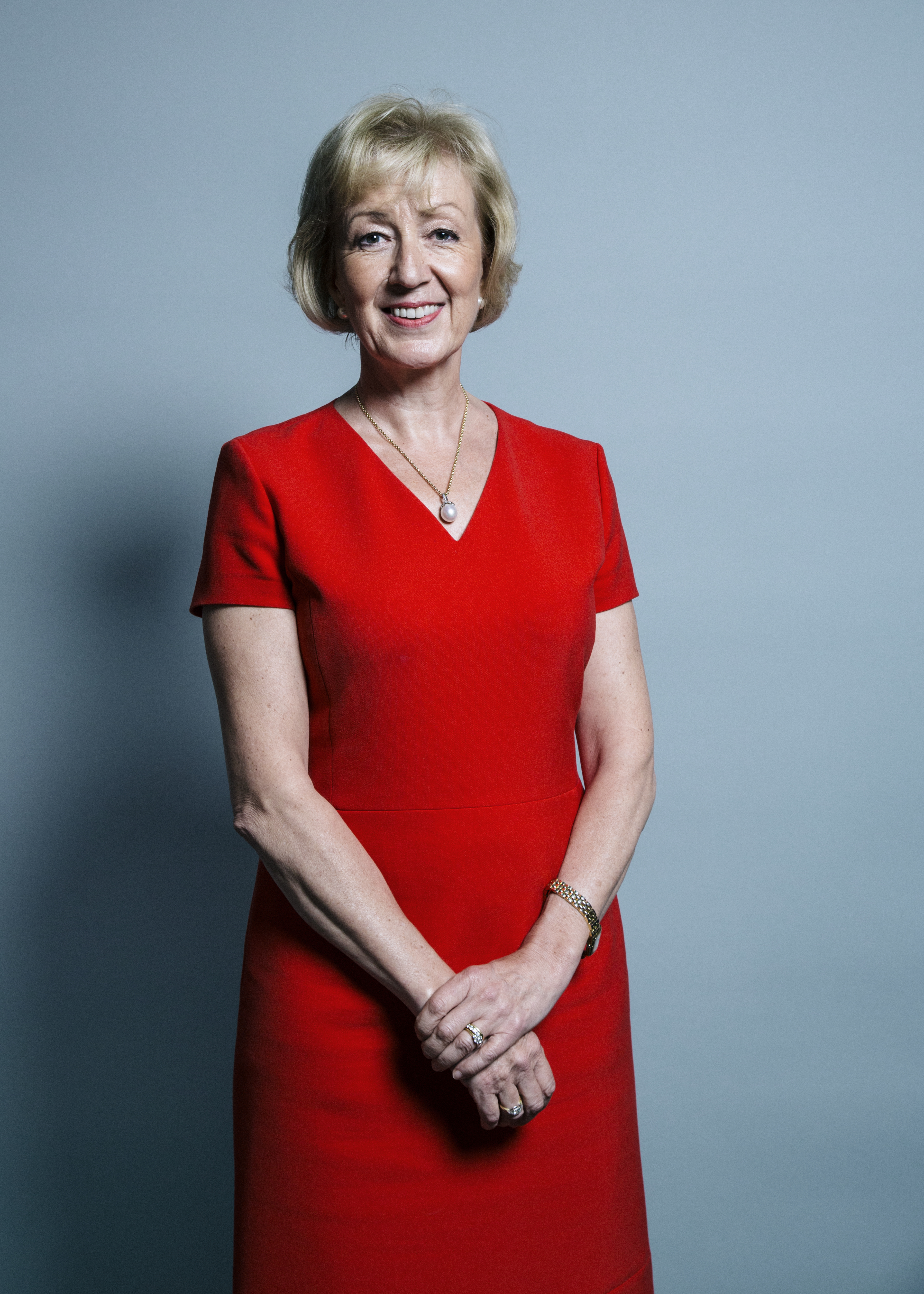 Official portrait of Andrea Leadsom